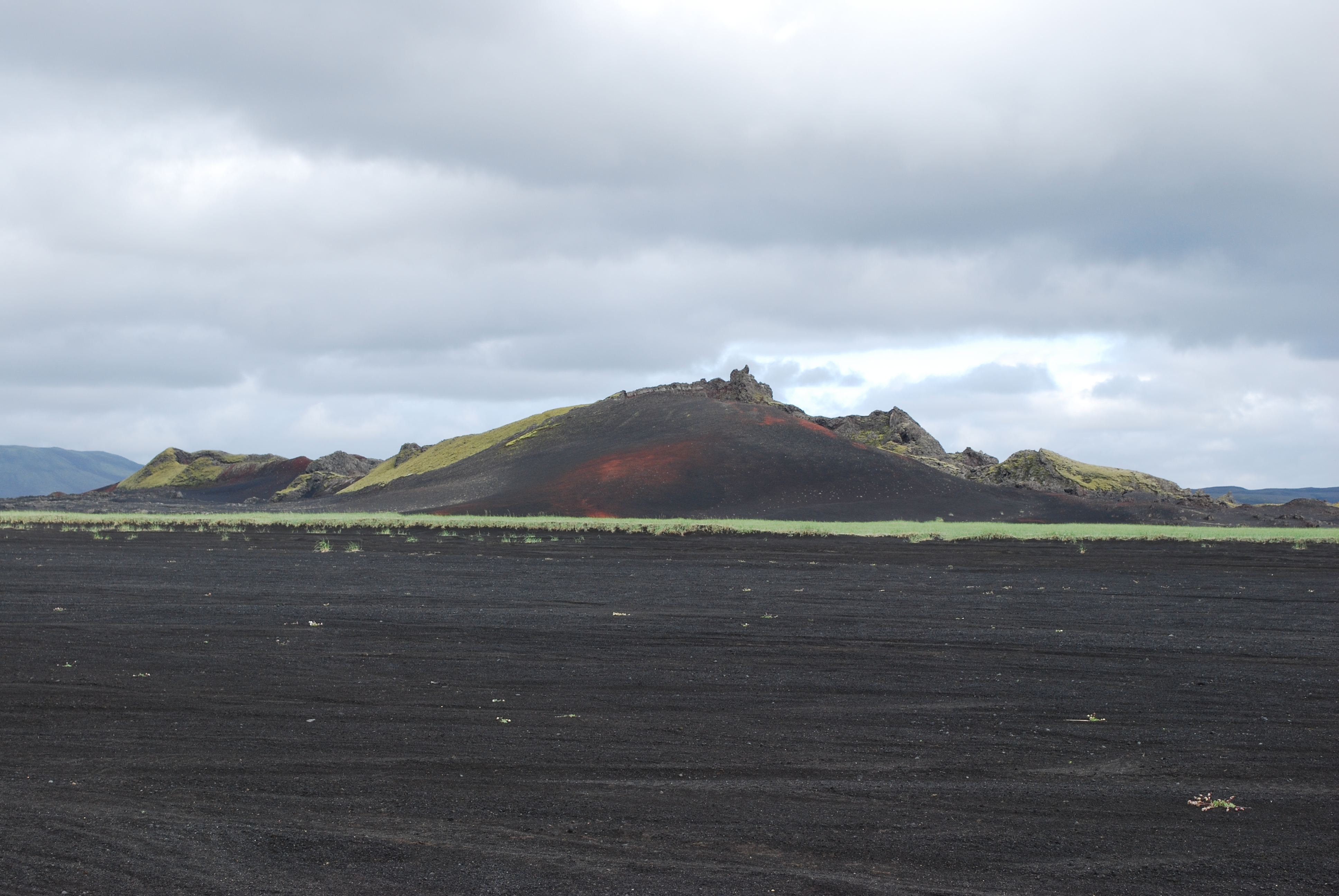 Landscape around Laki volcano forming 25 km lon volcanic region called Lakagígar, Iceland.